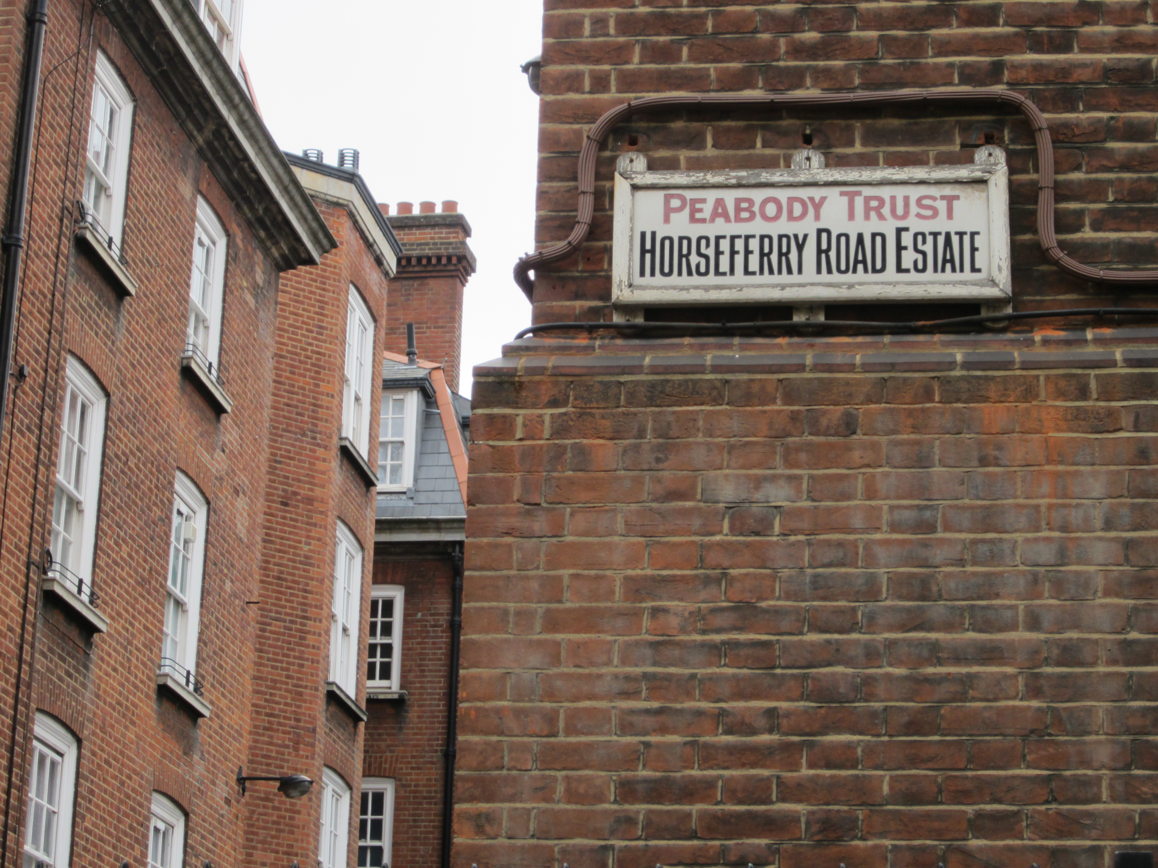 Photo of Peabody Trust estate on Horseferry Road, London.